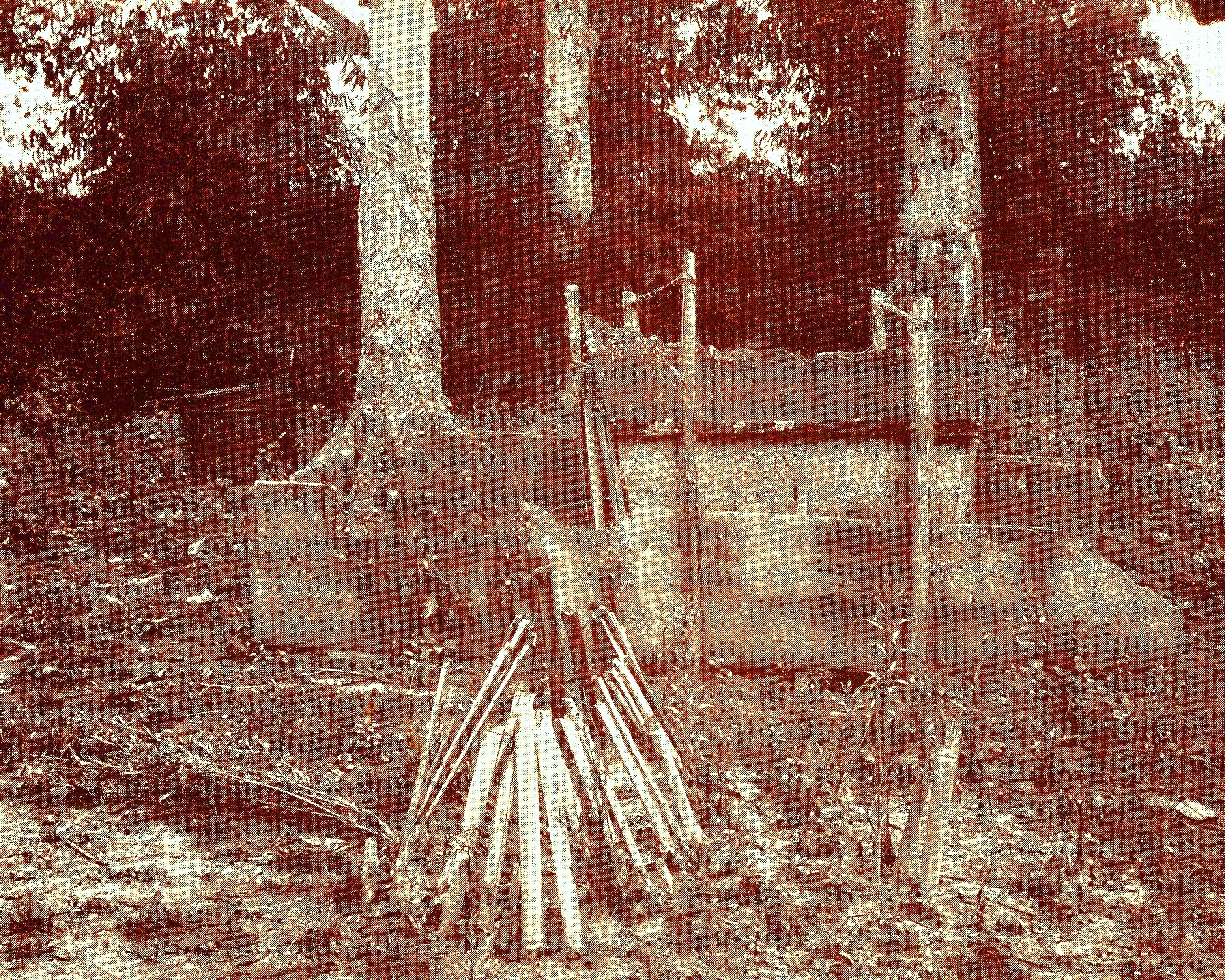 Sarcofaag in Si Temorong